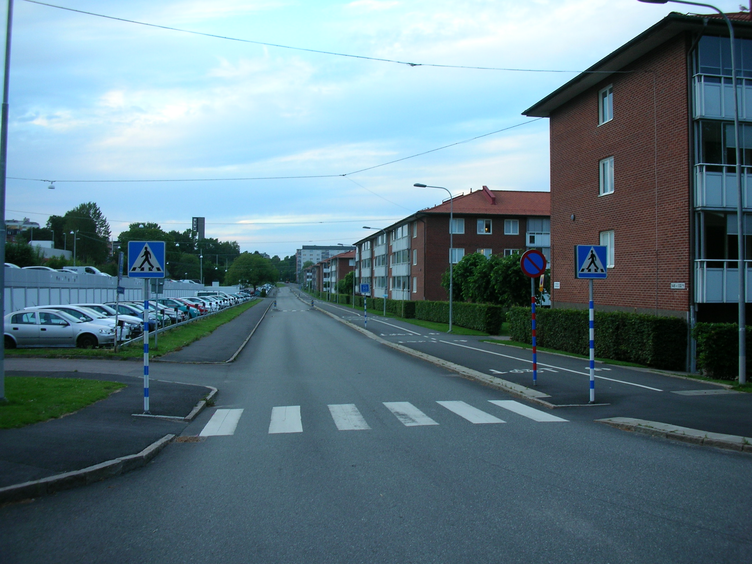 Kapplandsgatan viewed from its southern end, where it meets Tunnlandsgatan. 6 augusti 2015